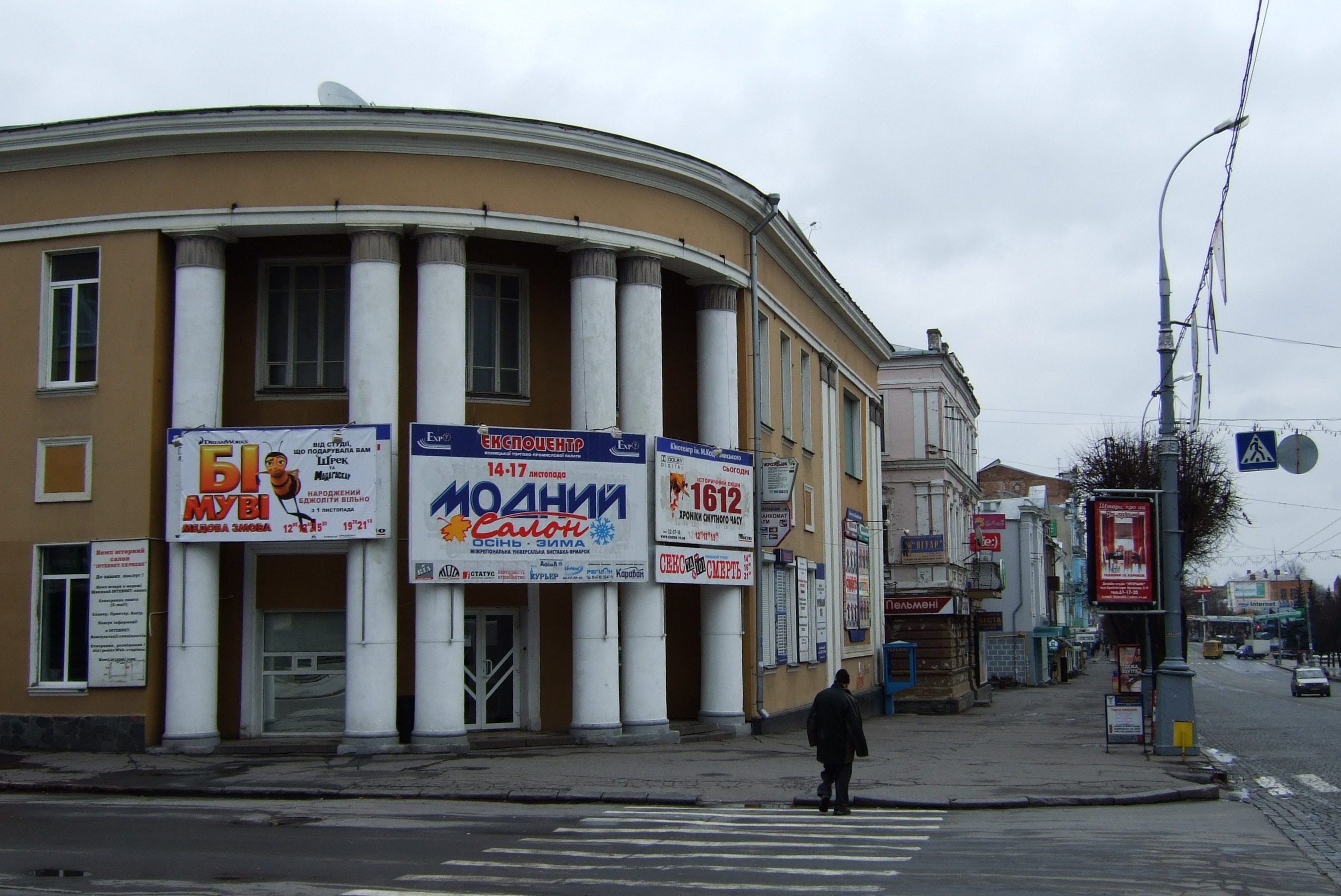 Vinnytsya, Kotsubinskiy Cinema. Soborna Street № 68. It was built in style of constructivism, typical for the thirties of 20 cen. by architect R.M. Rykov. This cinema was one of the first cinemas in Ukraine which had wide screen and stereophonic equipment. In the fifties of 20 cen. it was reconstructed into the ”Stalin’s Baroque“ style.